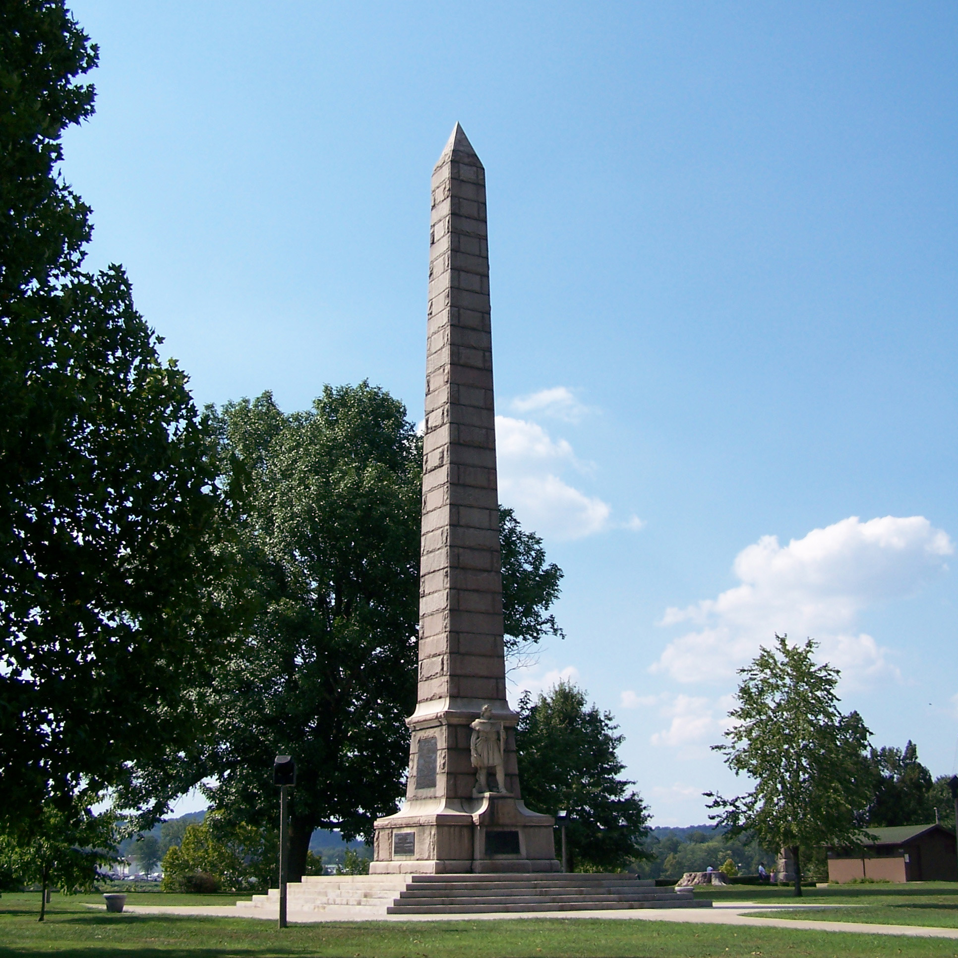 Point Pleasant Battle Monument at Tu-Endie-Wei State Park, with statue of Andrew Lewis